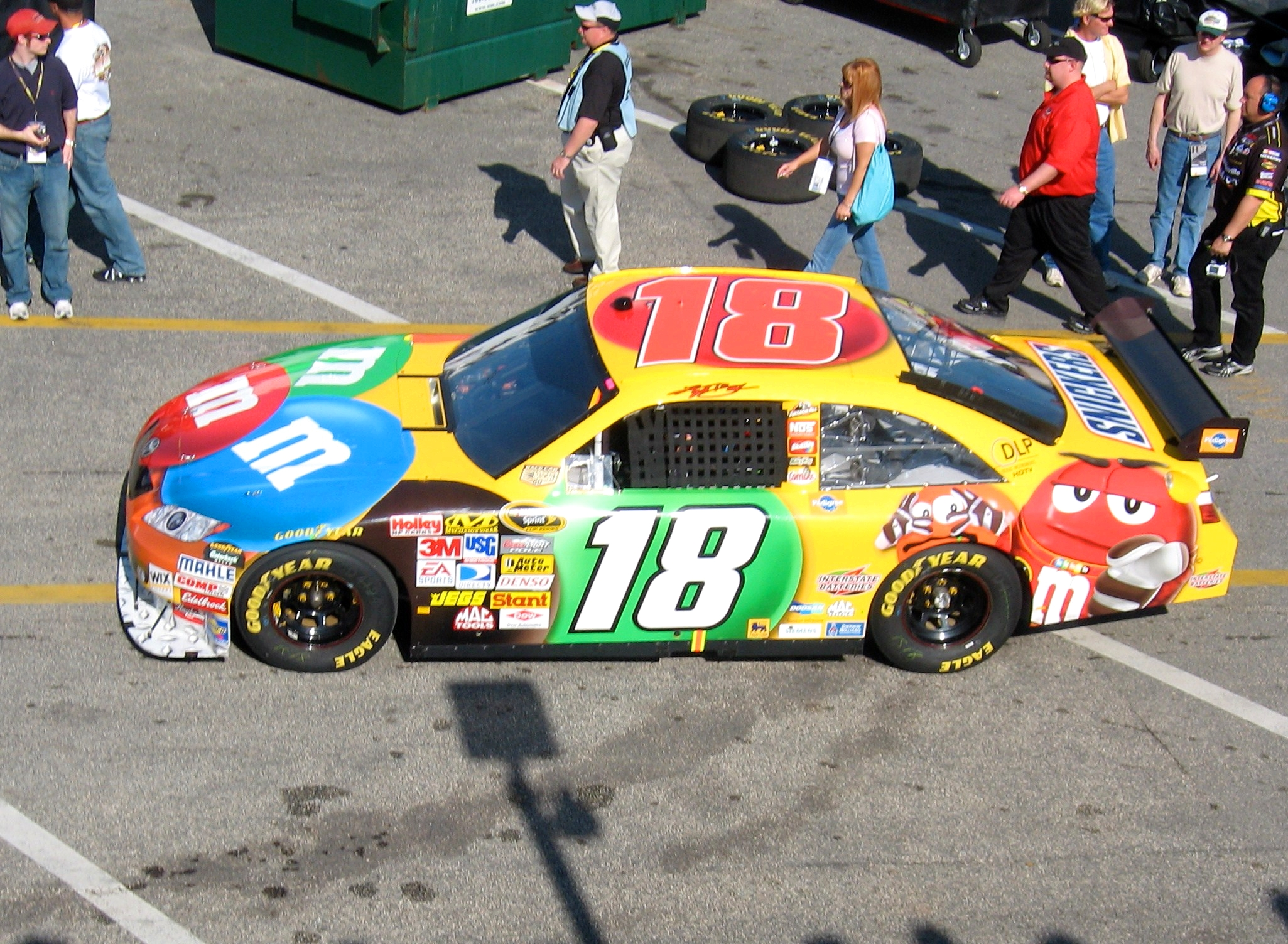 Kyle Busch - One of my least favorite driver personalities, but he knows how to drive.